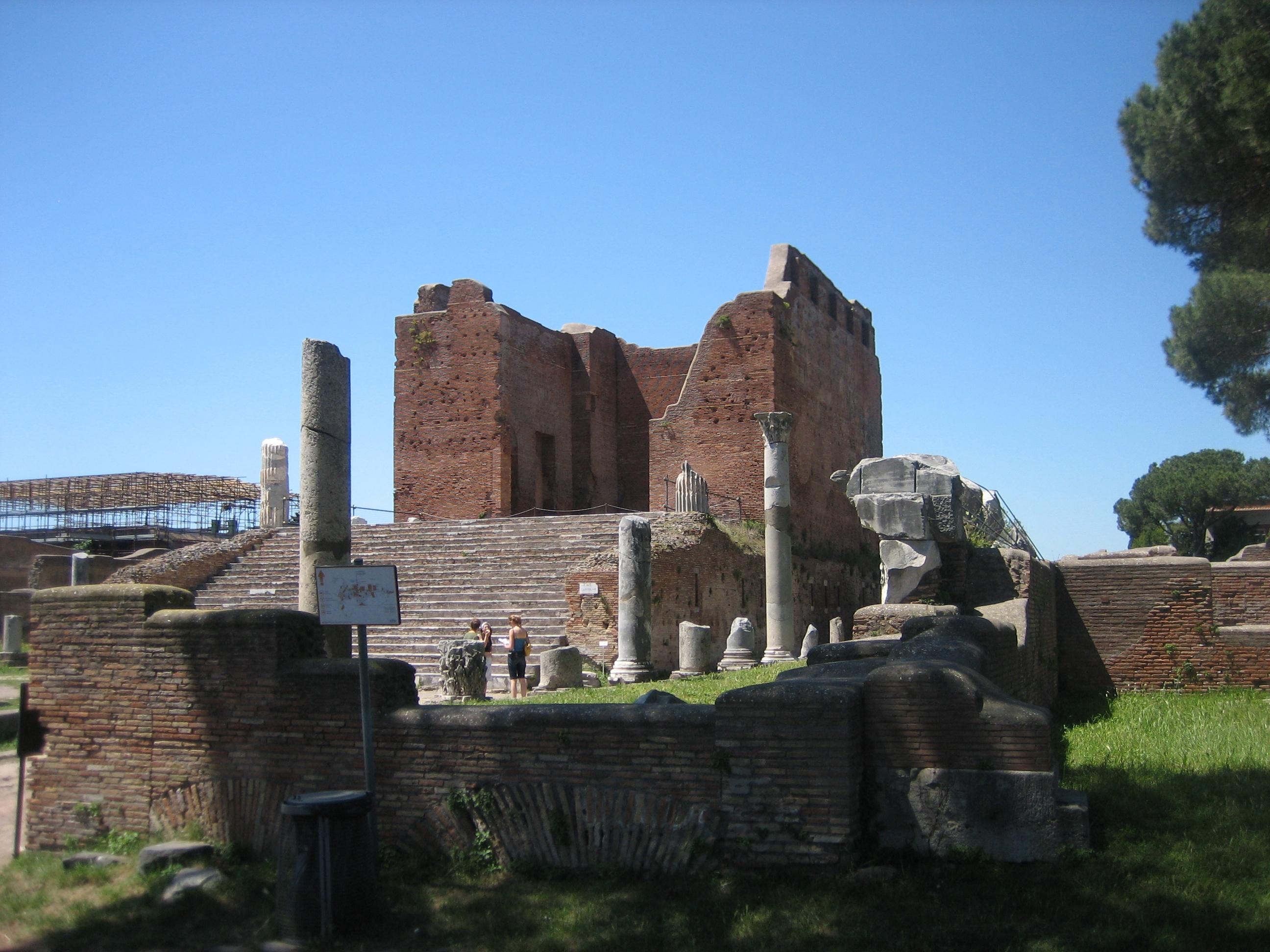 The Capitol of Ostia Antica in Italy